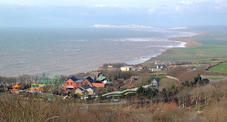 Blackgang Chine, Isle of Wight, from Gore Down viewpoint